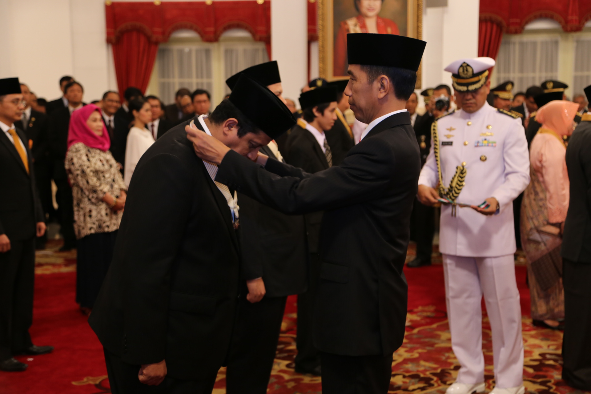 President Joko Widodo officially gave the honor of the Bintang Penegak Demokrasi Utama to the Chairman of Election Supervisory Board Muhammad Alhamid at the Presidential Palace, Thursday, August 13 2015.